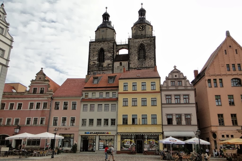 Stadtkirche on Market square